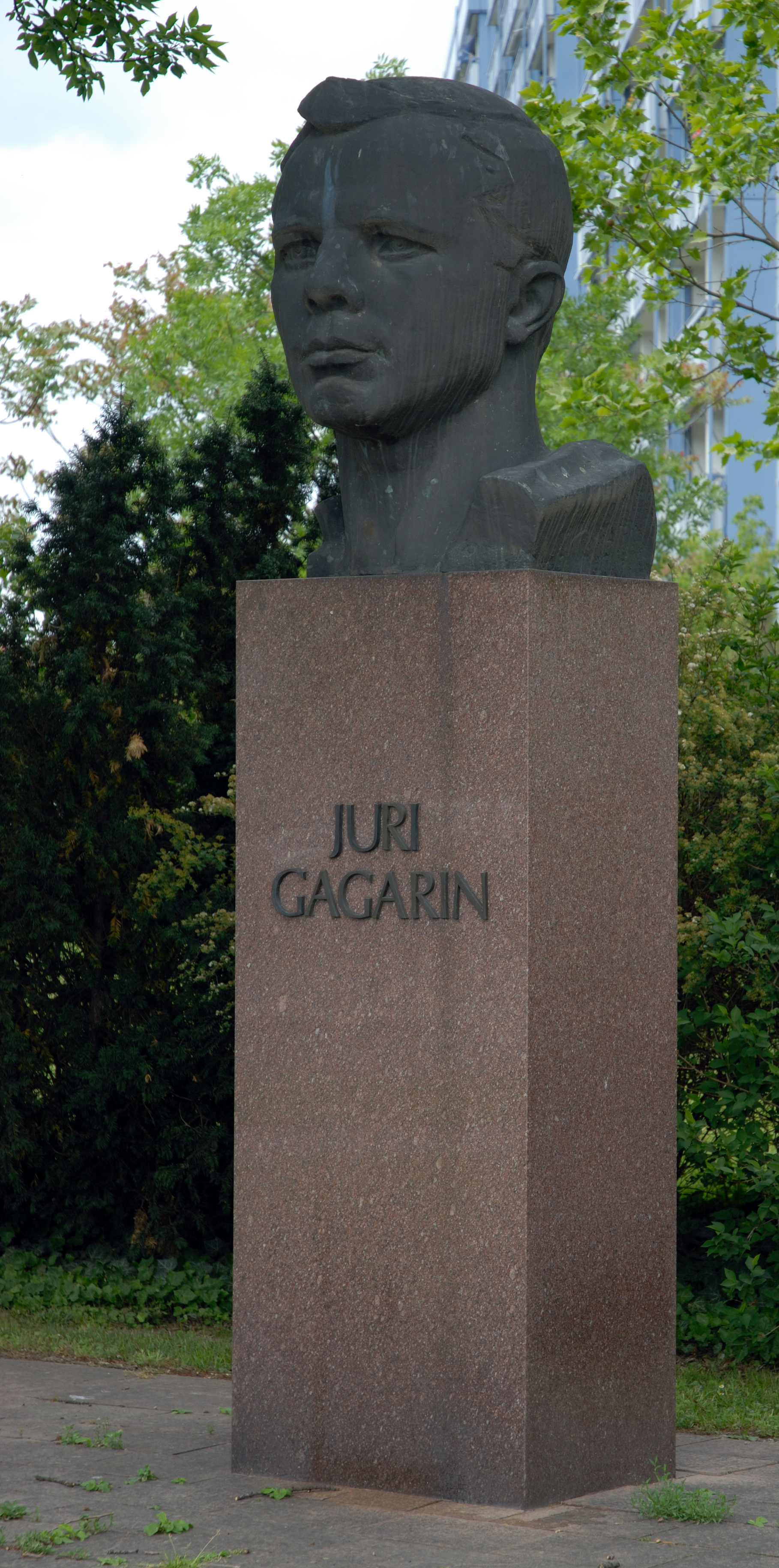 This image shows the Juri Gagarin memorial in Erfurt, Germany.